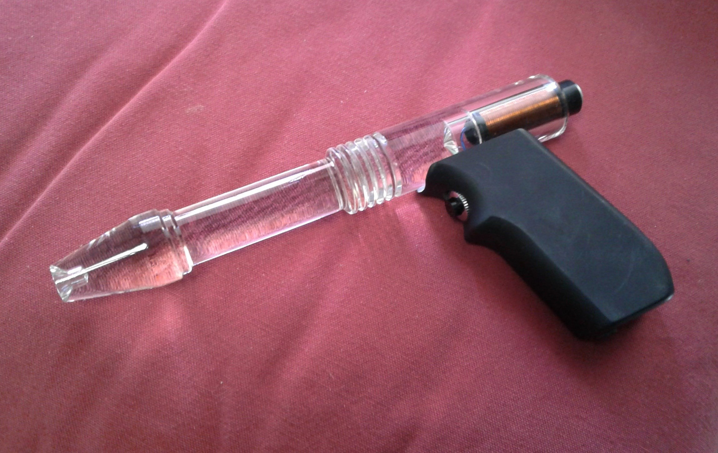 Ray gun designed by Tullio Proni, designated Model B. Barrel is machined and polished acrylic, enclosing a coil of copper wire. Handle is Alumilite urethane plastic; earlier versions featured acrylic handles. Produced by Isher Artifacts. Photo by William S. Higgins.